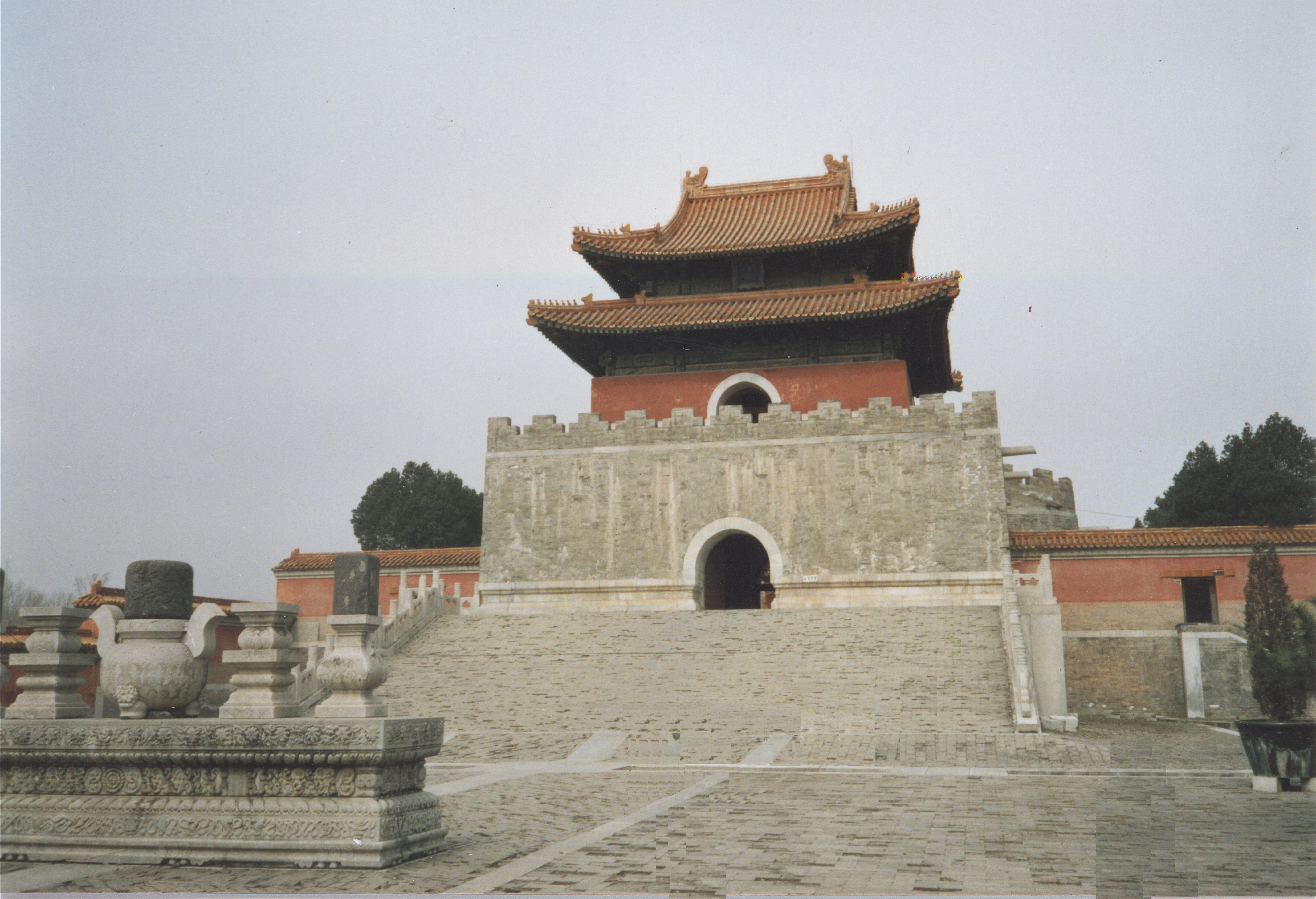 Qing dynasty emperors' Western Tombs in Hebei, China.